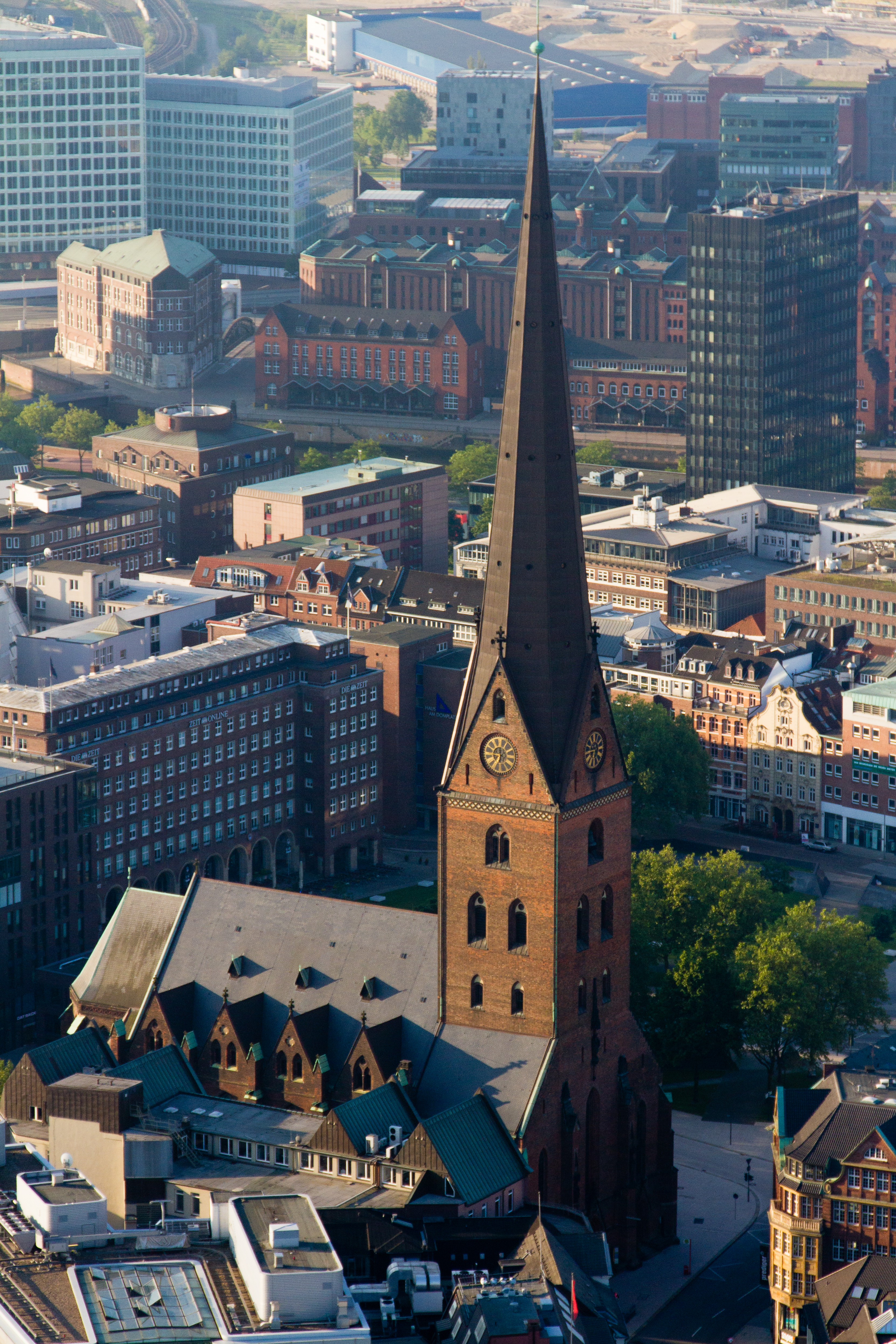 St. Petri Church in Hamburg-Mitte